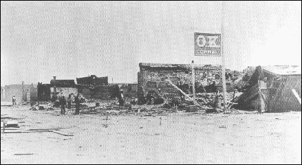 Aftermath of the May 25, 1882 fire that destroyed most of the western half of Tombstone, Arizona Territory.